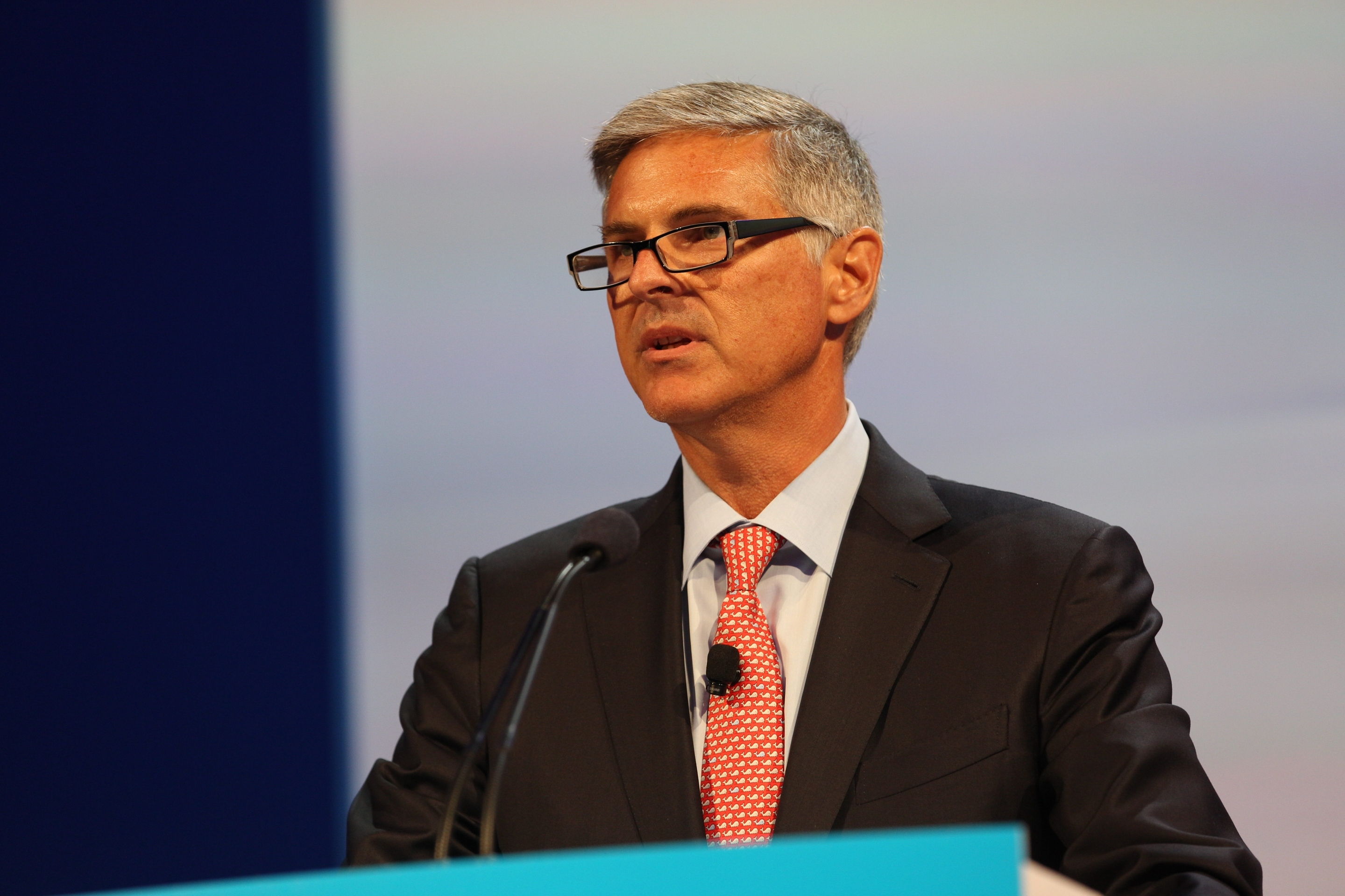 WTTC Global Summit 2016 World Travel & Tourism Council Flickr images